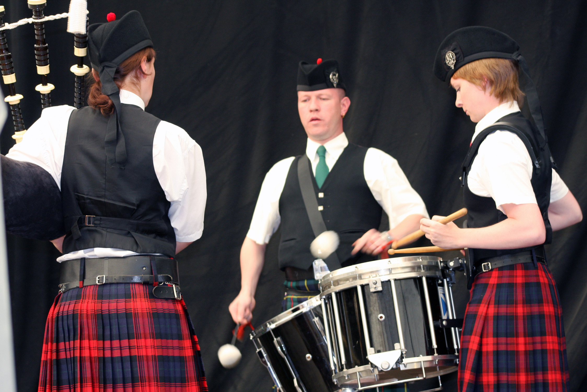 «wùy ù ay» Highland Games Swiss Championships - Solo Tenor Drumming